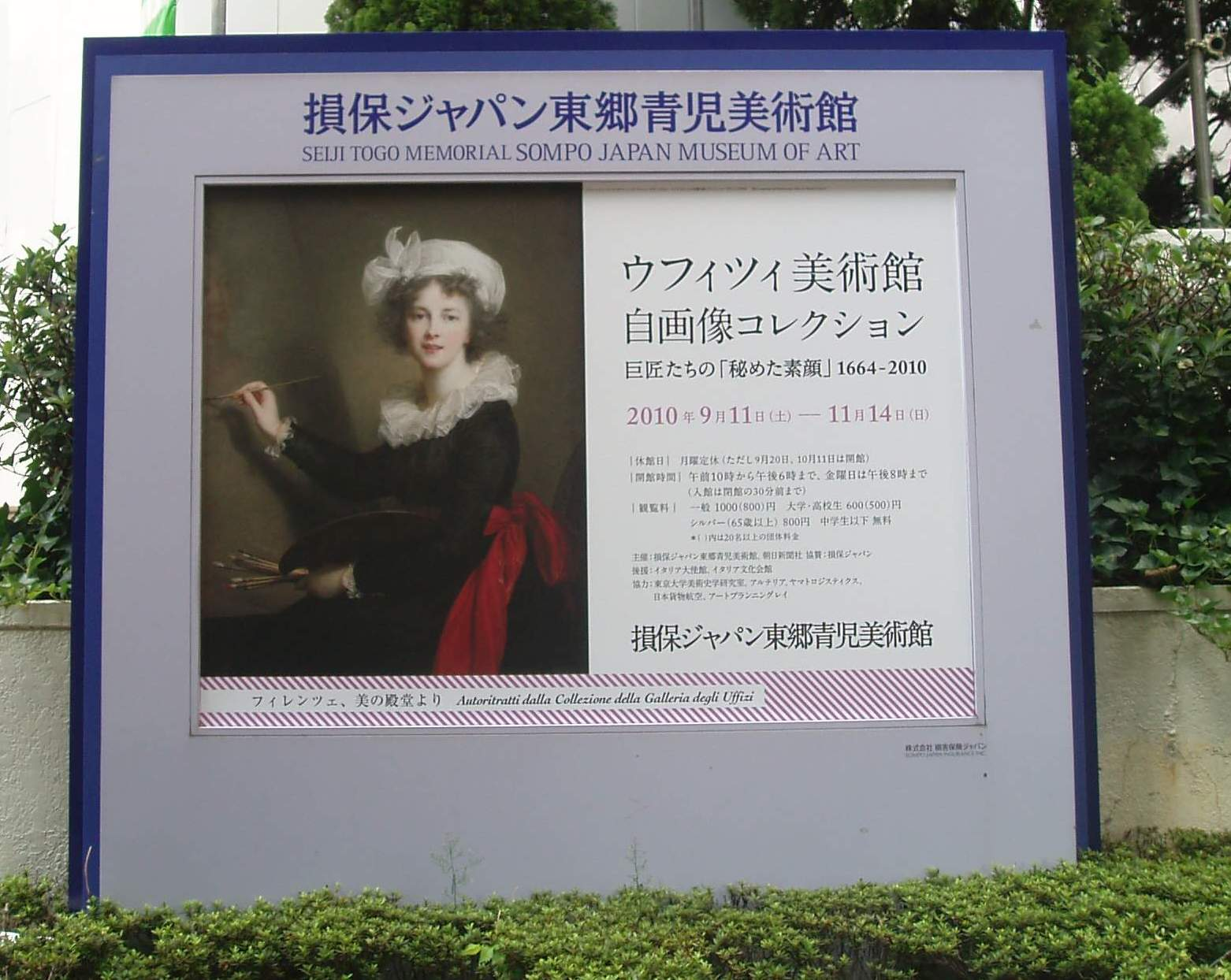 Entrance of the Seiji Togo Memorial Sompo Japan Museum of Art - Sompo Japan Head Office Building, Tokyo. Poster of the Exhibition with Eropean Selfportrais from the Uffizi, Florence